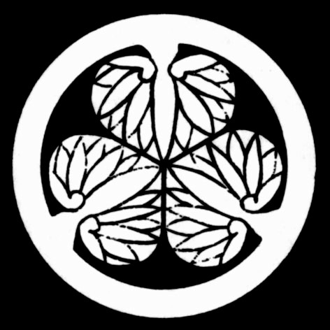 Crest of Tokugawa